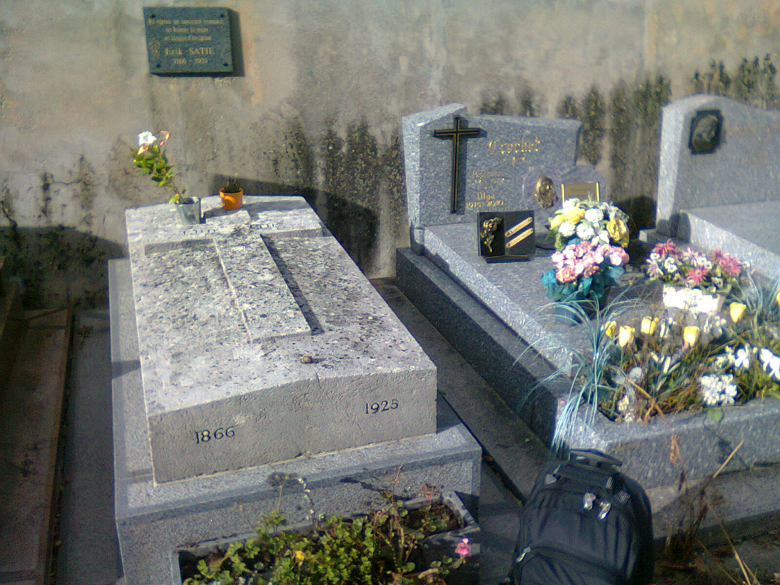 Tomb of Erik Satie - composer - Arcueil